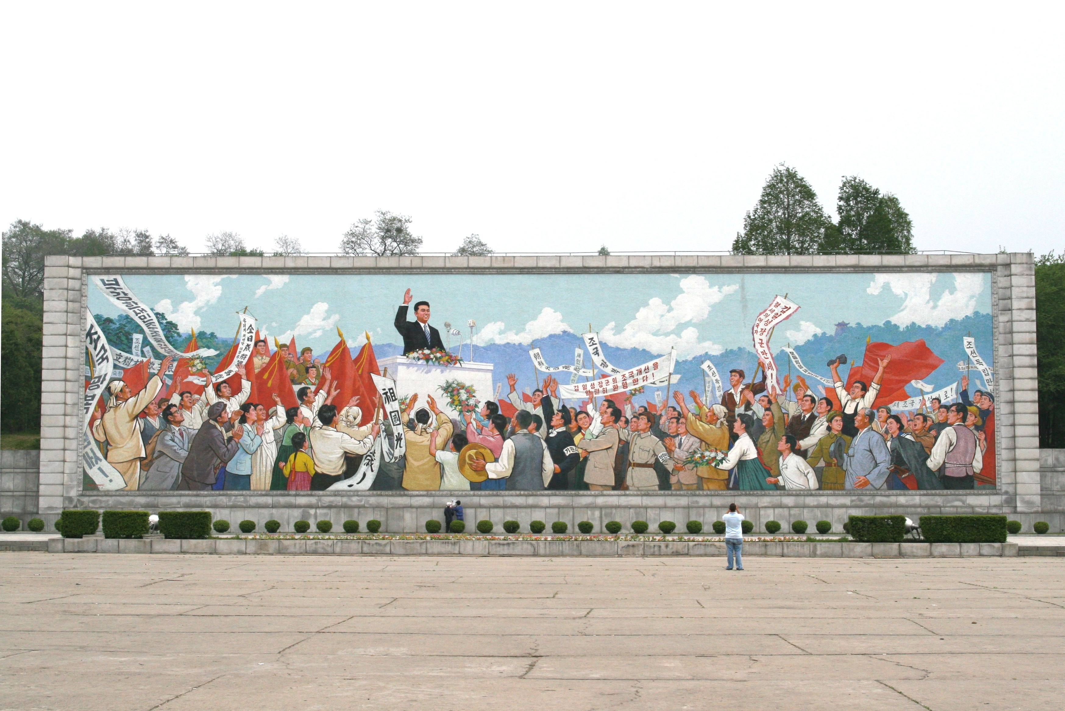 A Mural depicting Kim Il Song addressing the Korean People - in Kaeson Revolutionary Site, Pyongyang.